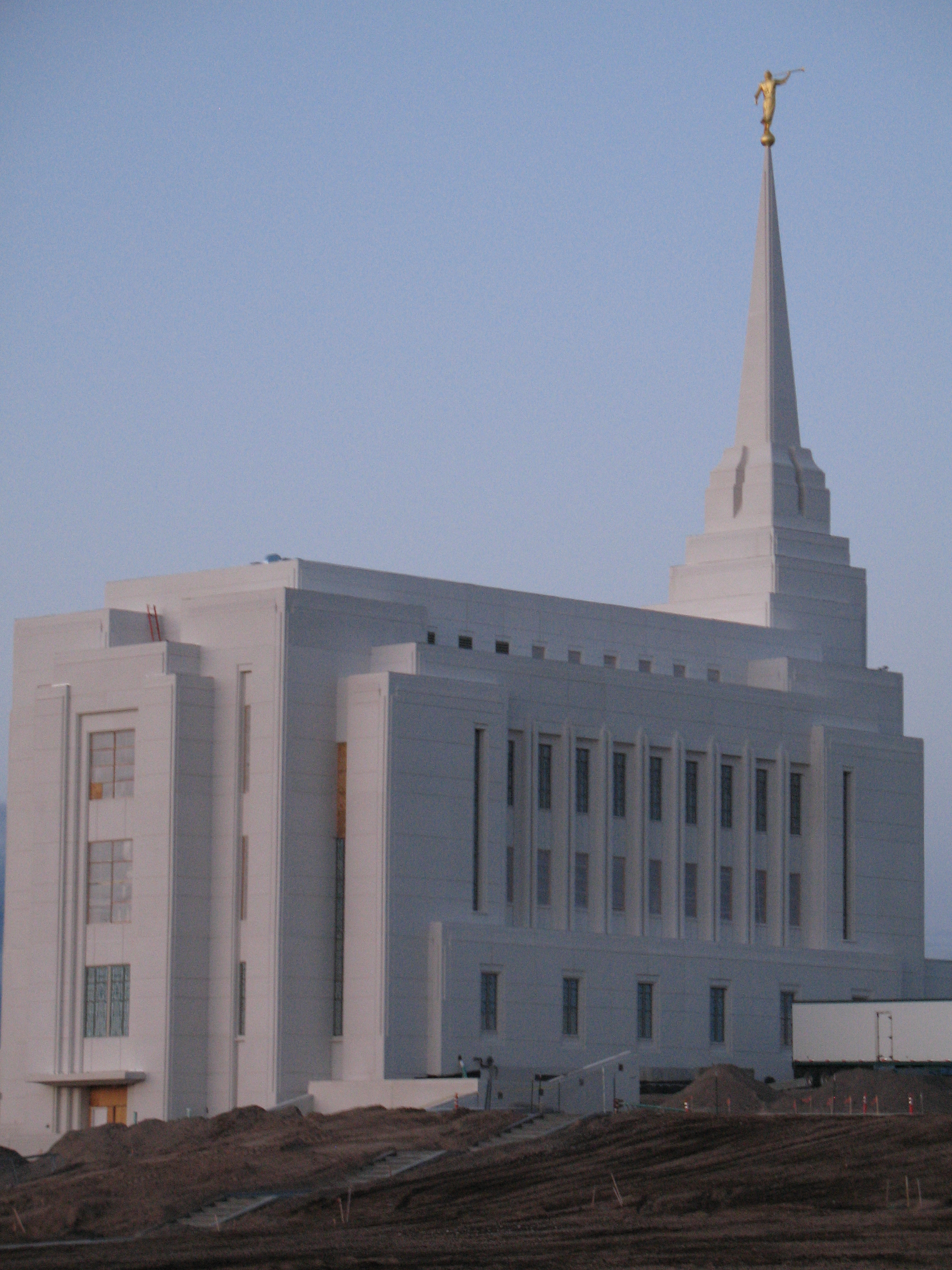 Photo of the Rexburg Idaho Temple taken April 2007.